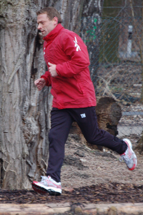 Soccer coach Thomas Häßler.